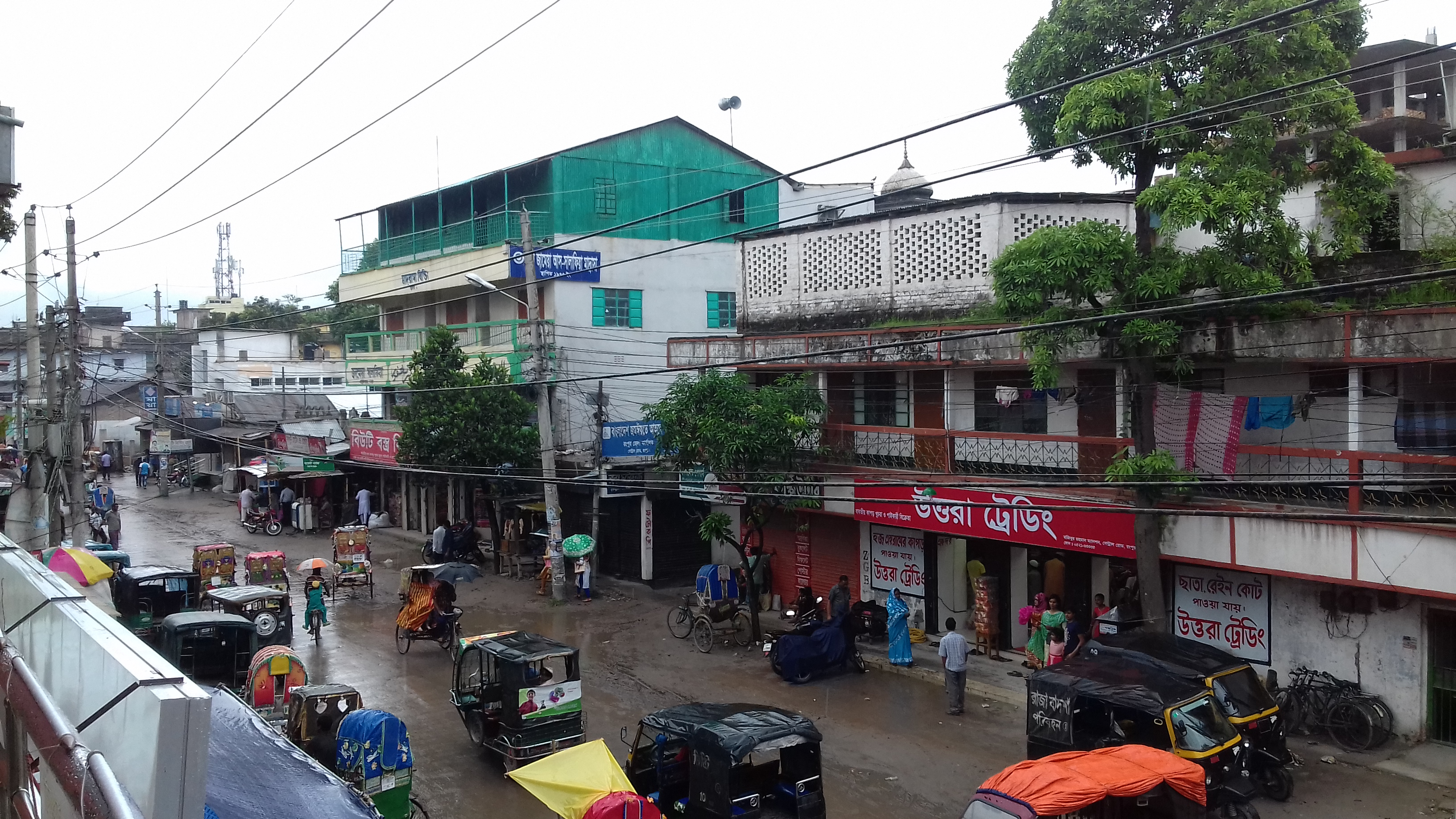 Central road (Haragach road) on a rainy day